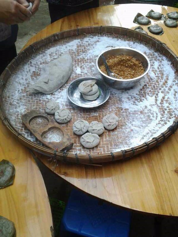 Specific mould for making "籺"